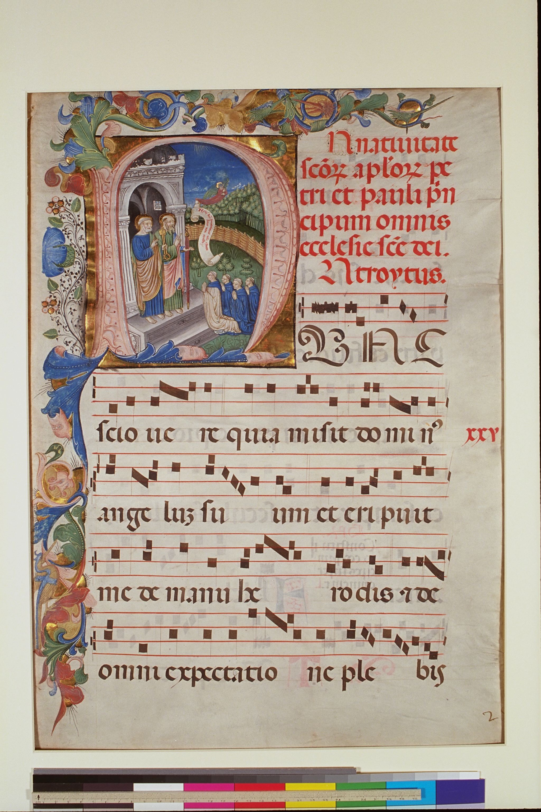 Leaf from a Gradual, Italy, ink and tempera on parchment, 540 x 382 mm; New York, Columbia University, Rare Book and Manuscripts Library, Plimpton MS 040A